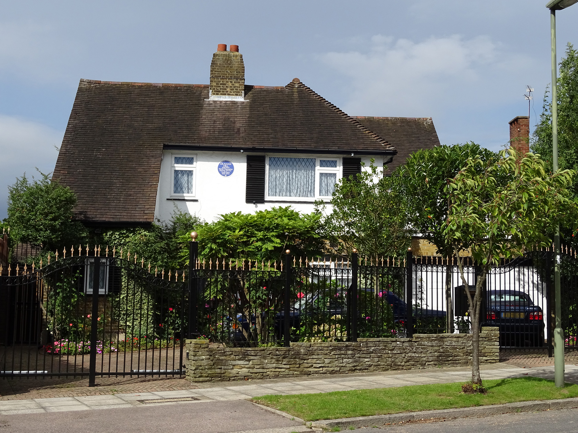 Graham Hill 1929-1975 World Champion Racing Driver lived here 1960-1972 - 32 Parkside, Mill Hill, London NW7 2LH, London Borough of Barnet